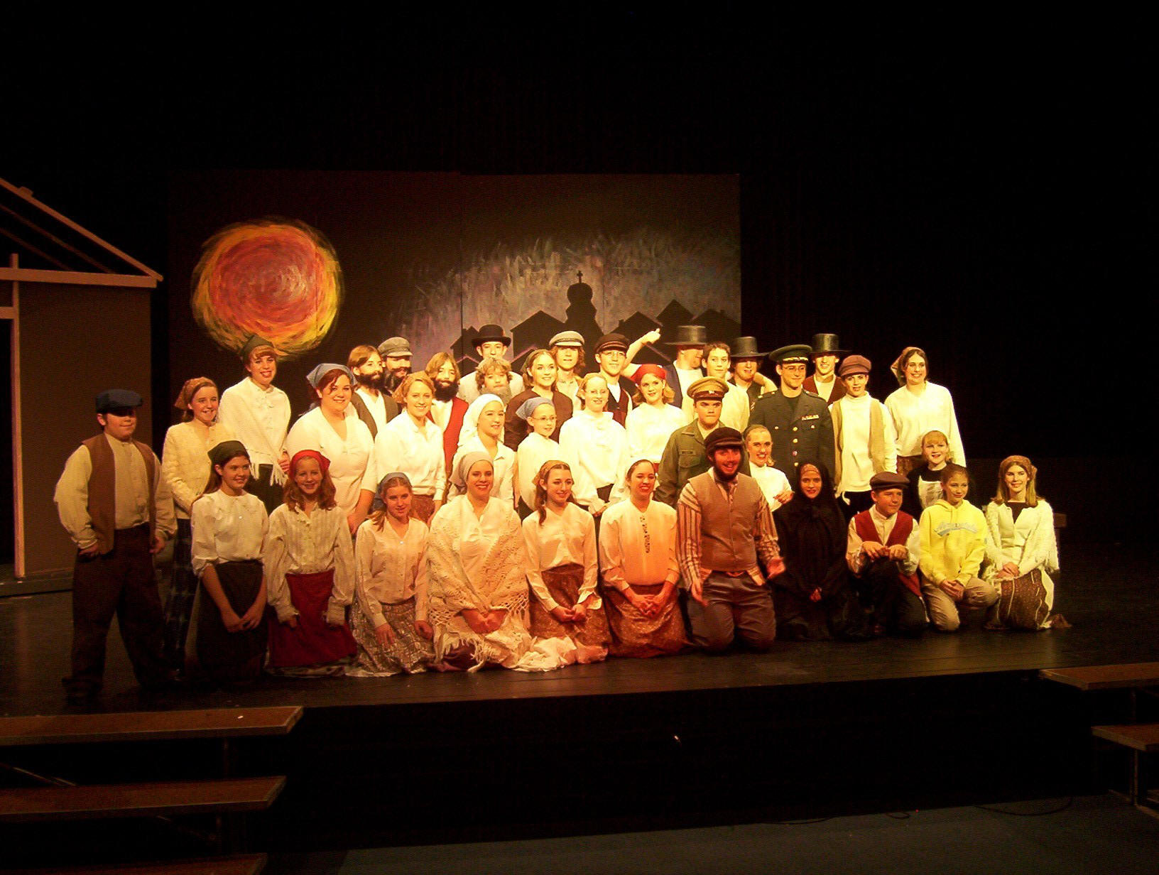 Fiddler Cast Picture 2003